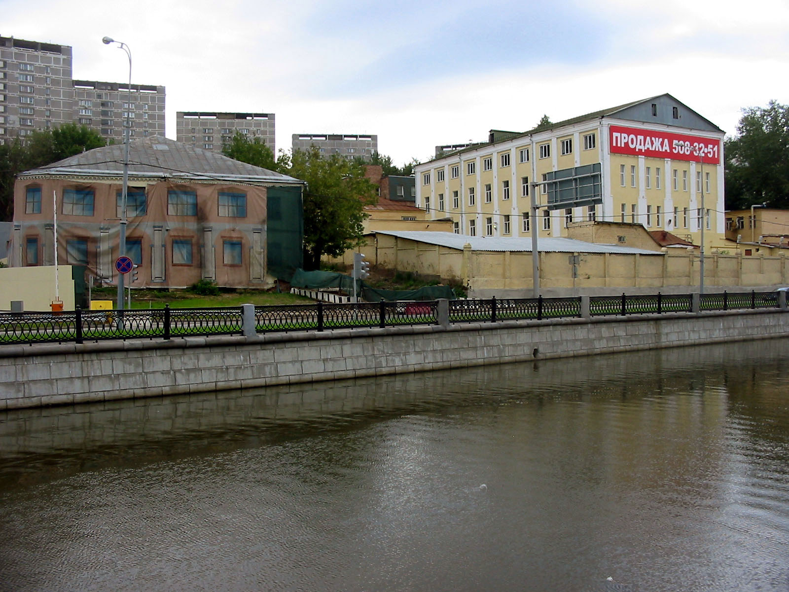 Krasnokazarmennaya Embankment, Moscow.